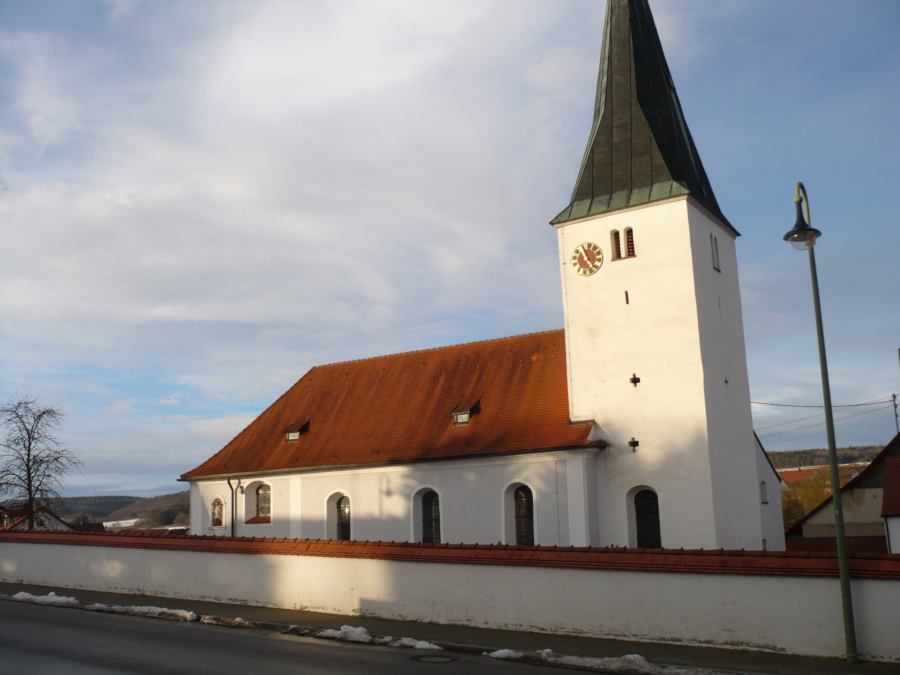 Church St. Nikolaus in Gansheim